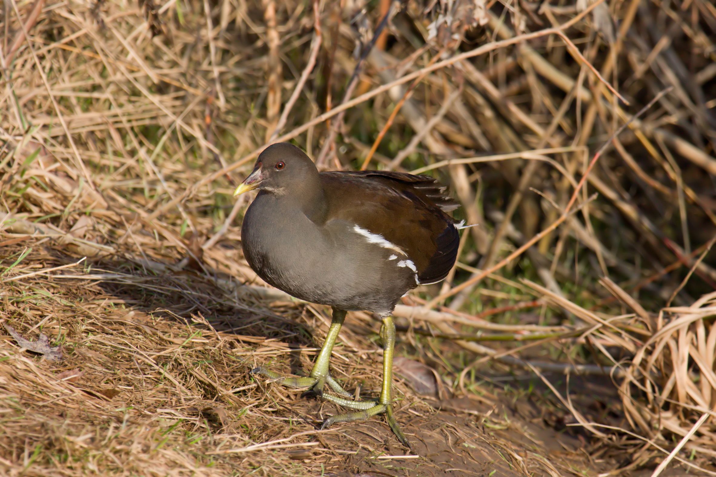 Common Moorhen